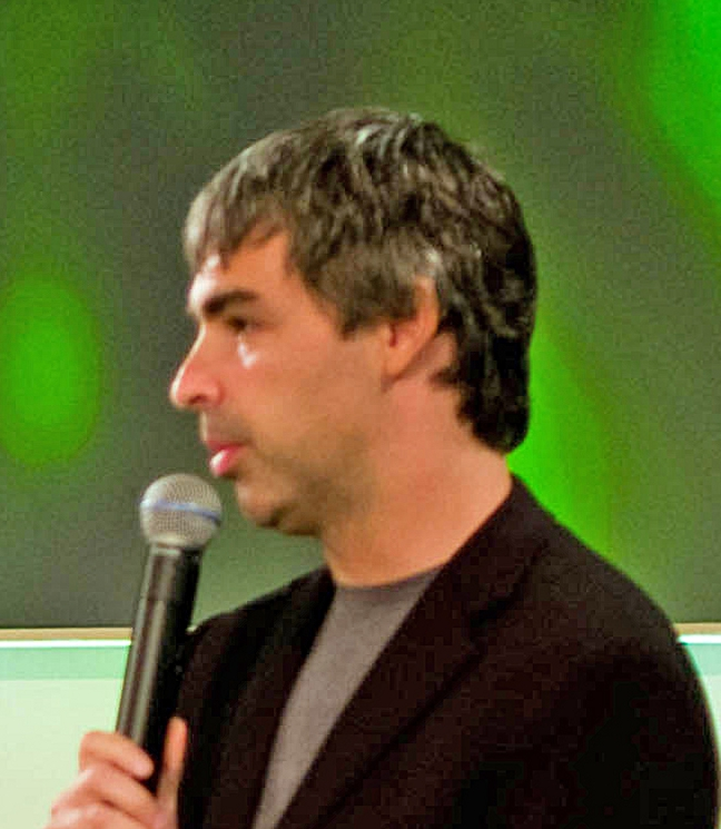 Larry Page